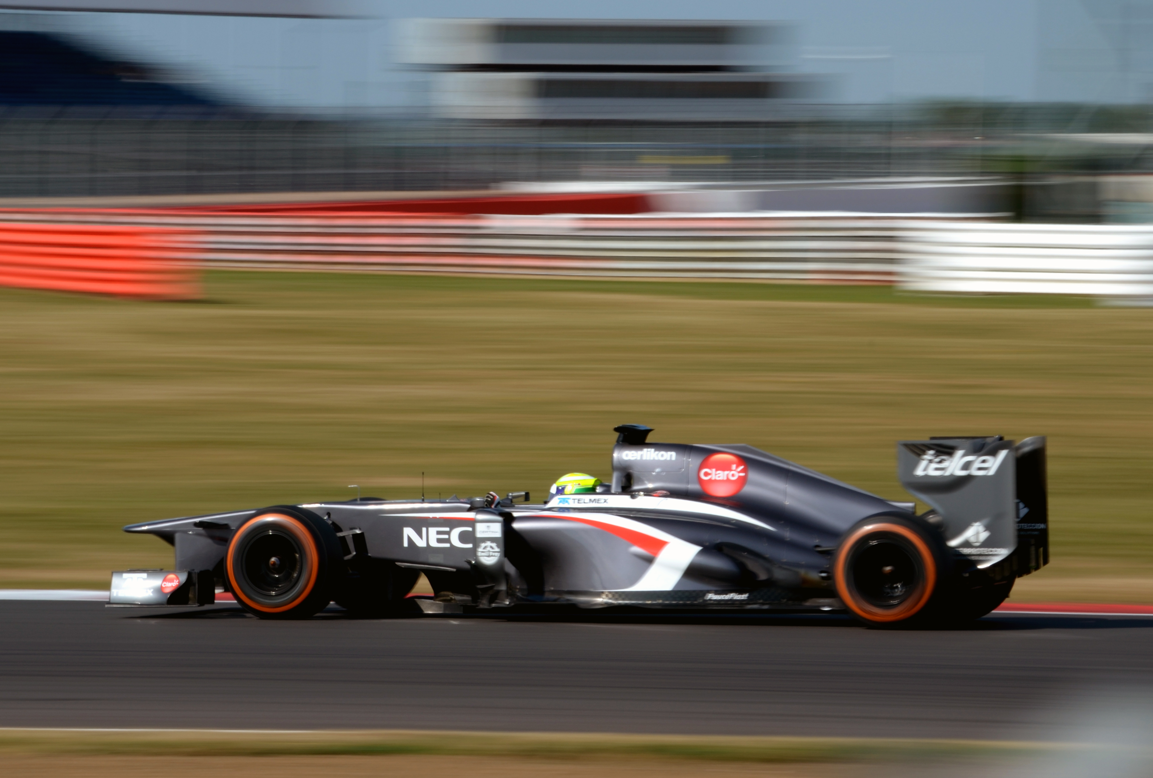 Kimiya Sato driving the Sauber C32 at the Young Drivers' Test at Silverstone.